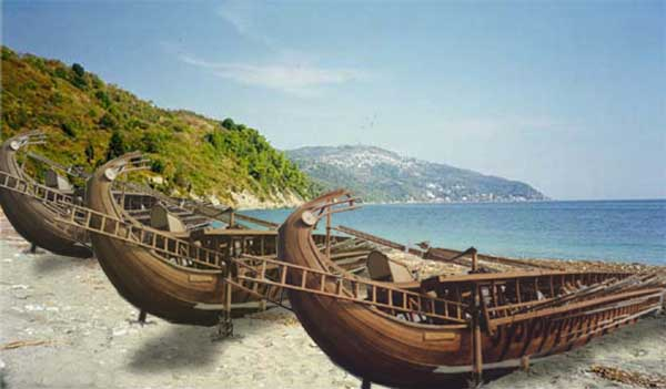 A reconstruction of beached Persian ships at Marathon, prior to the battle. An EDSITEment reconstruction.